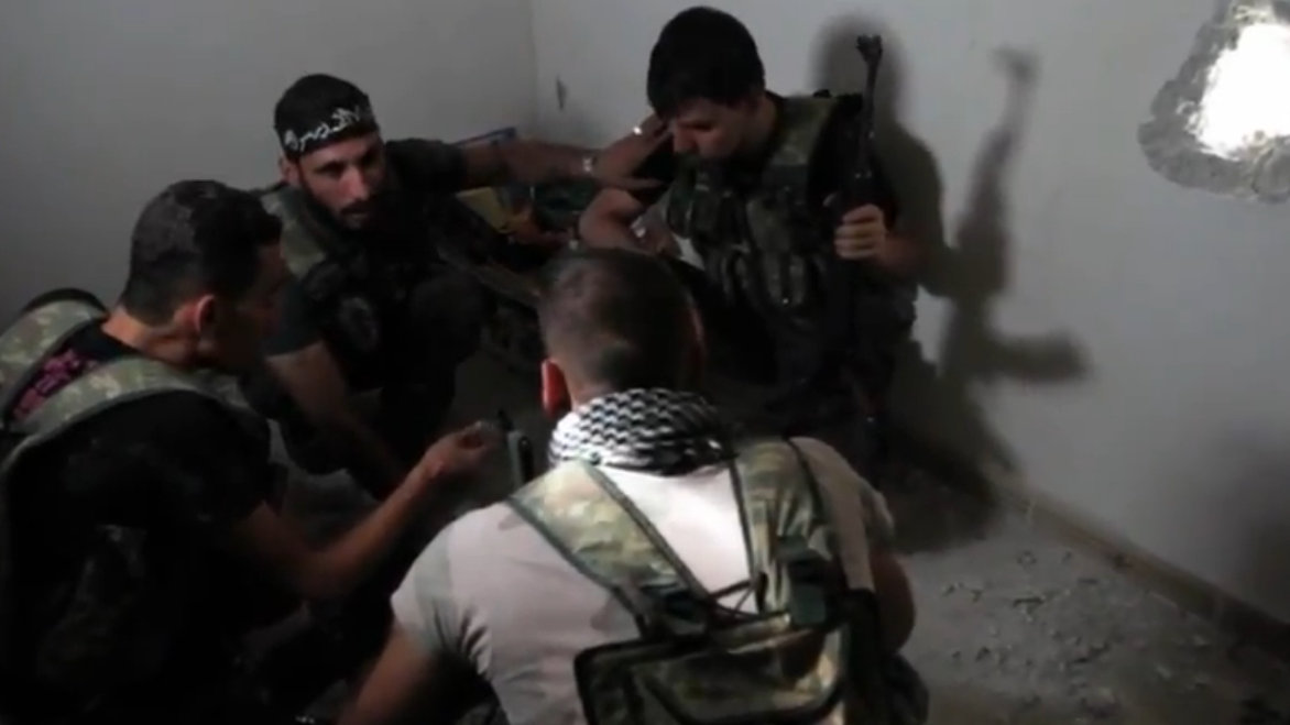 FSA soldiers hold a planning session during the categorie:Battle of Aleppo (October 2012).